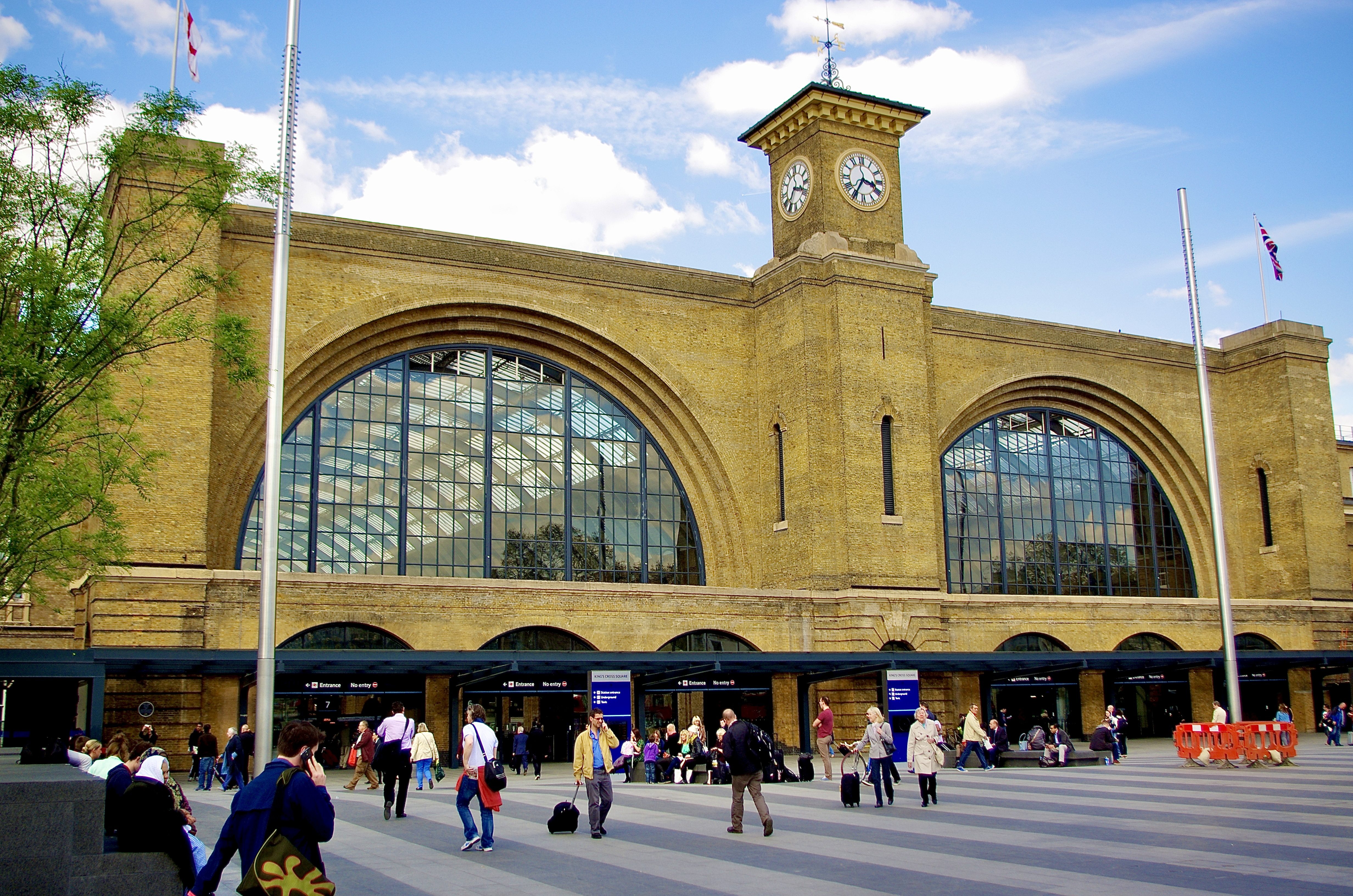 South facade of King's Cross Station in London